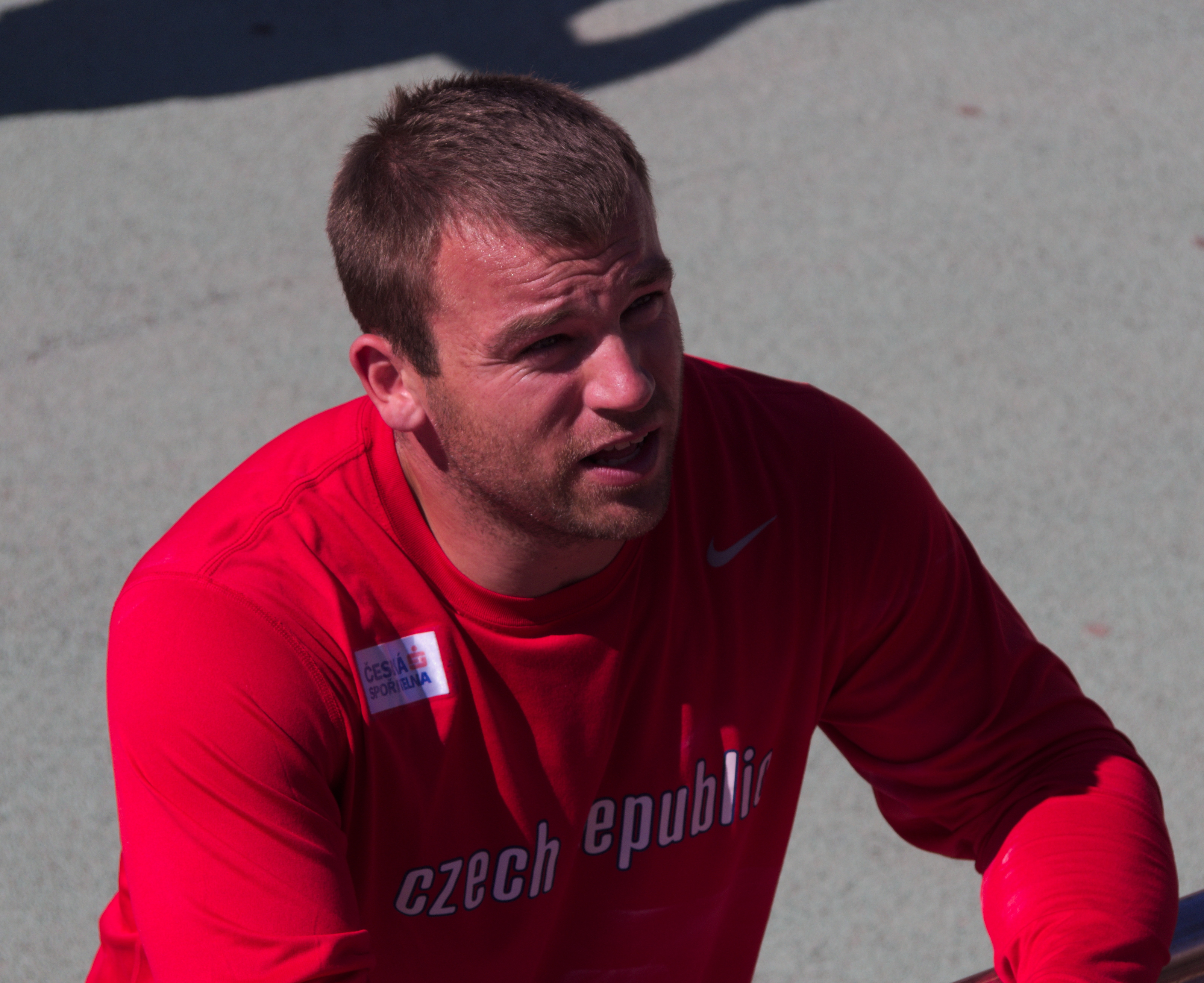 Lukáš Melich, representing the czech team at men's hammer throw, winner of the event, talking with his coach.